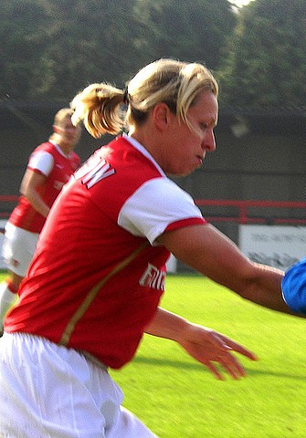 Bclfc vs Arsenal in the FA league cup, season 2006/07. For more details go to